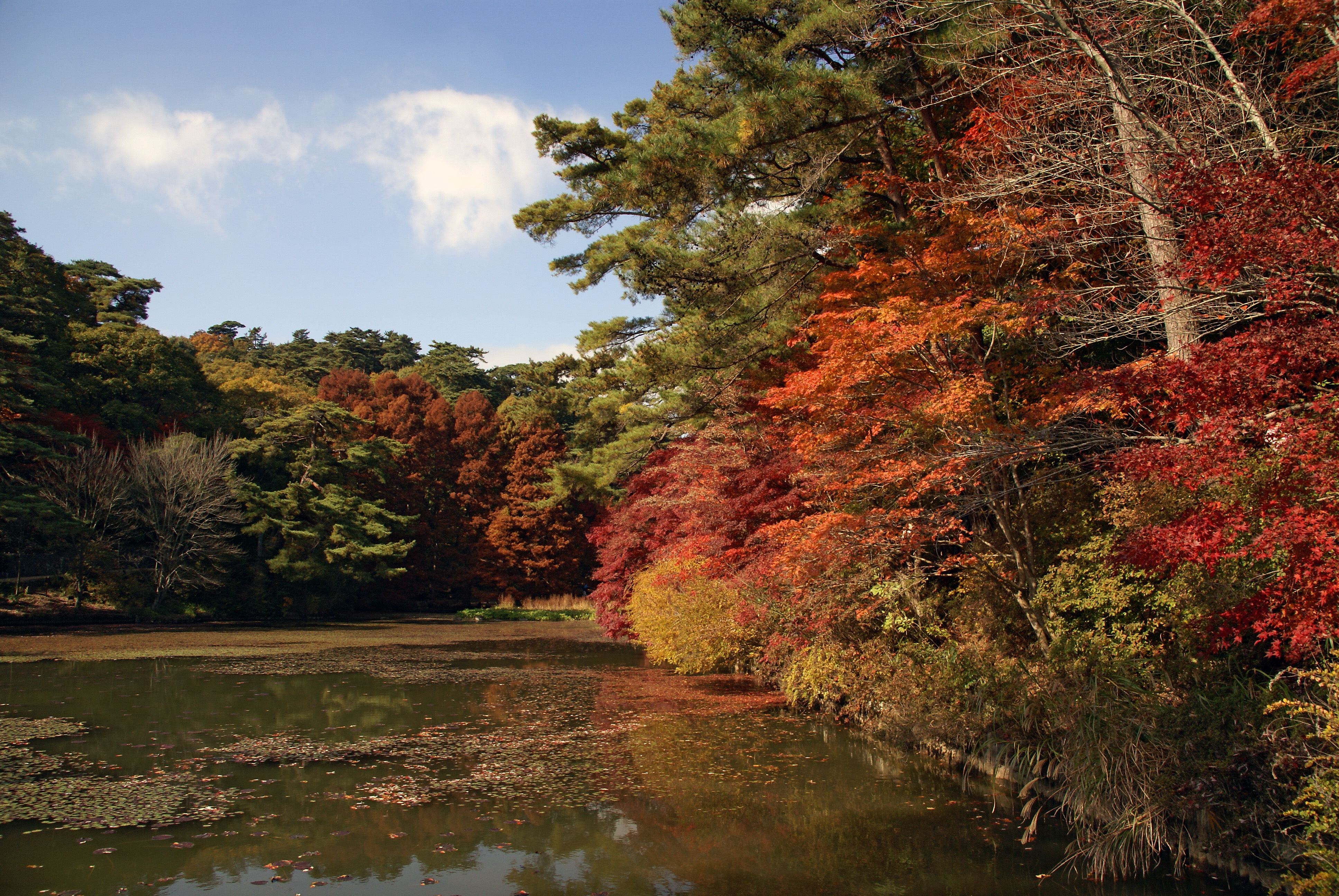 Kobe Municipal Forest Botanical Garden in Kobe, Hyogo prefecture, Japan